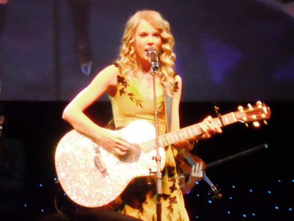 and live at Sony press conference, CES 2010